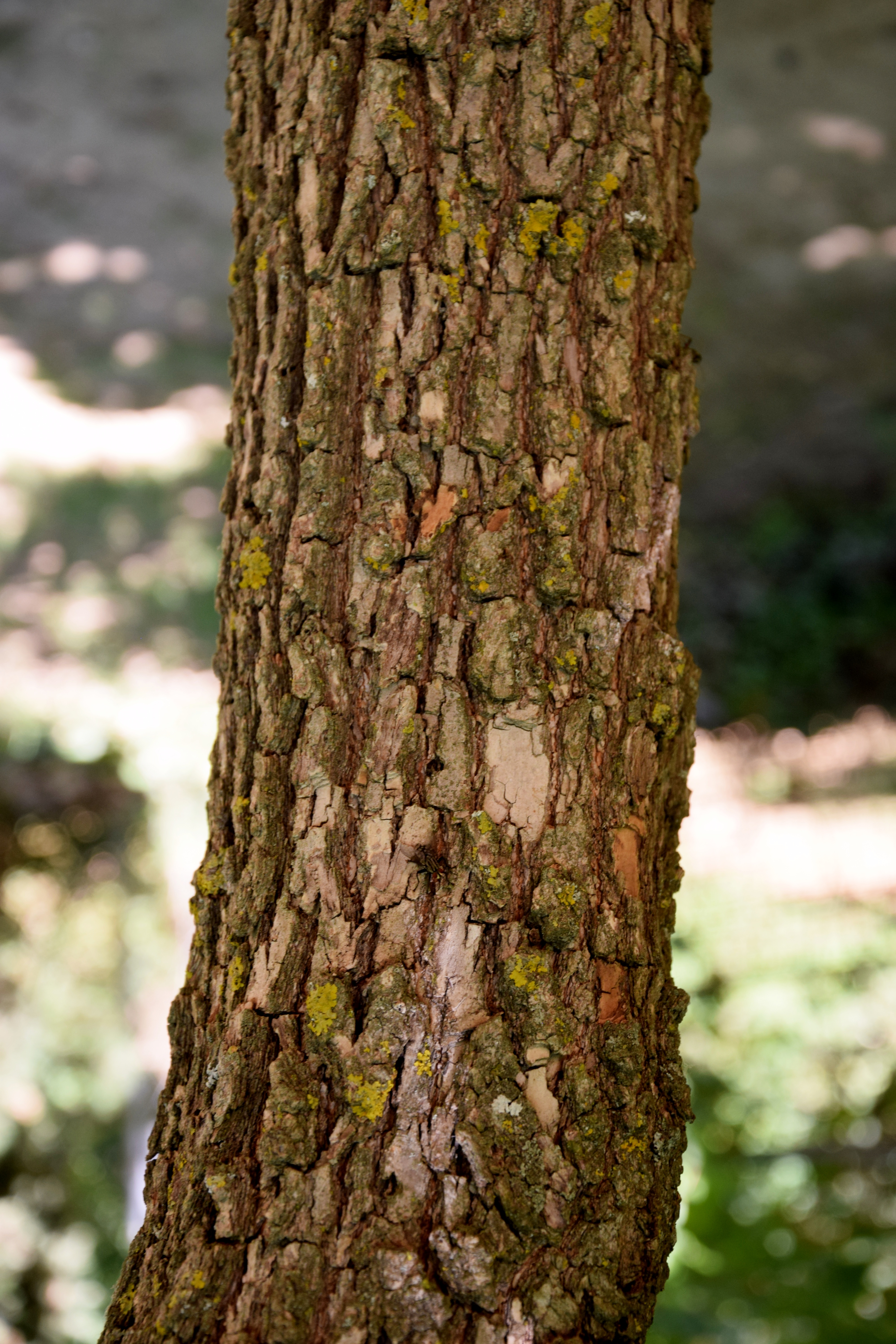 Trunk of Diospyros kaki, in Jardin aux Plantes parfumées la Bouichère, Limoux, Aude, France